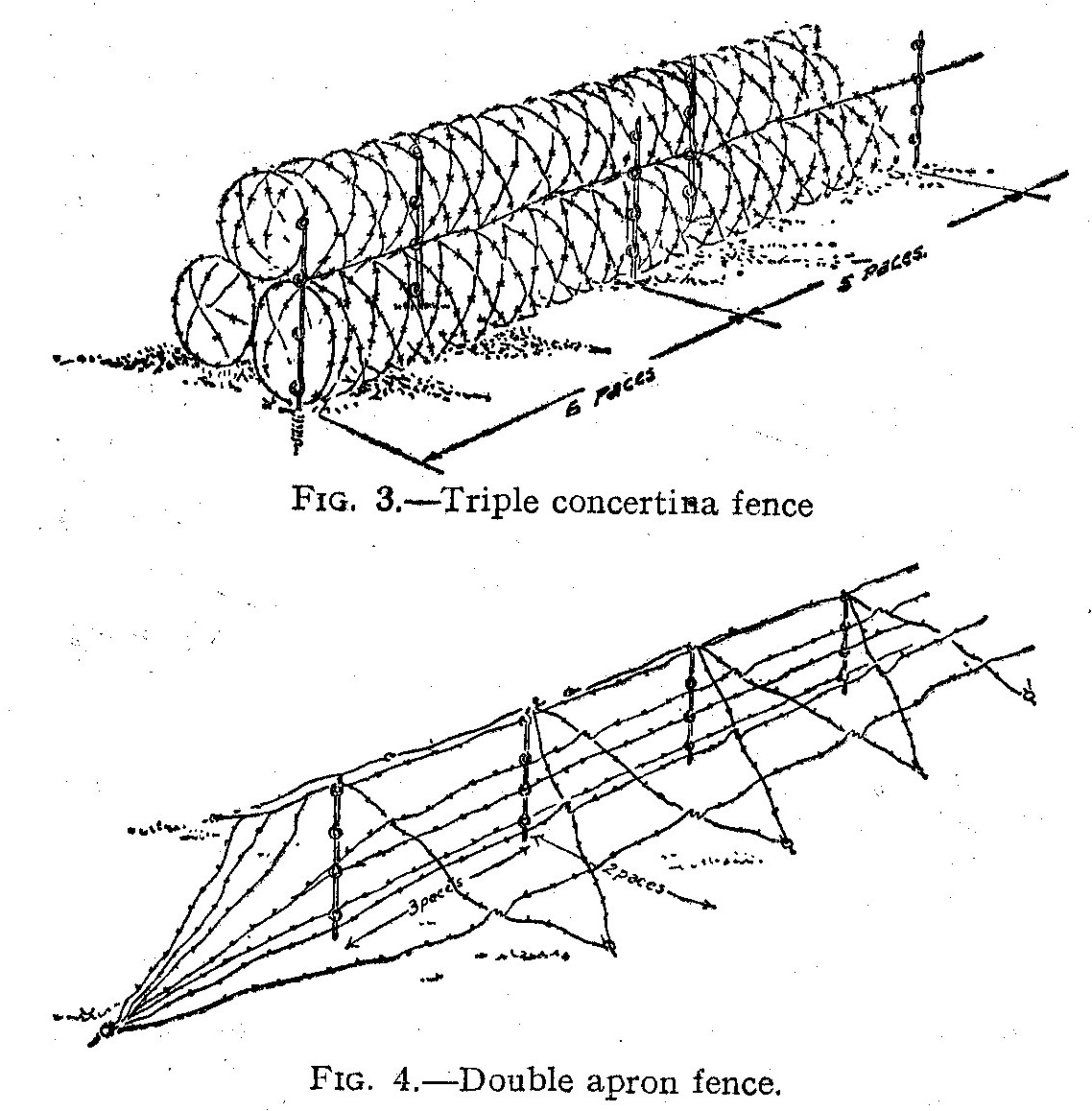 Barbed wire obstacles from Military Training Pamphlet No 30 Part III: Obstacles (1940)